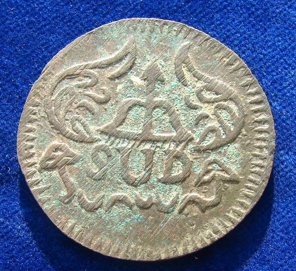 Bronze d. = 38 mm. Issued under General José María Morelos, 1765 Valladolid - 1815 San Cristóbal Ecatepec, Mexico. "SUD" below bow and arrow in floral ornamentation / Monogram of Morelos above value and date. KM 234. Condition: Nice VERY FINE+